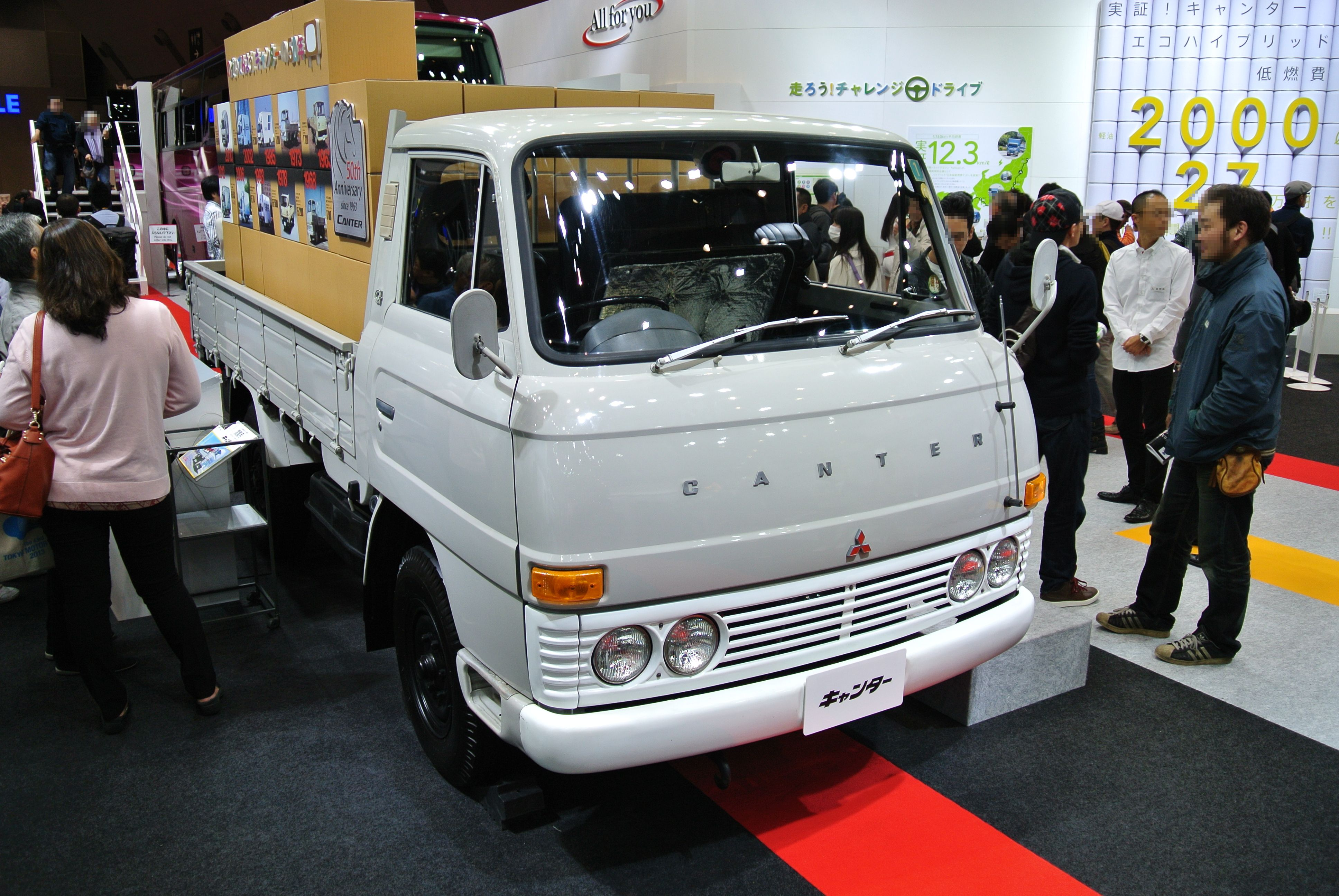 Mitsubishi Fuso CANTER T90 at 43rd Tokyo Motor Show 2013